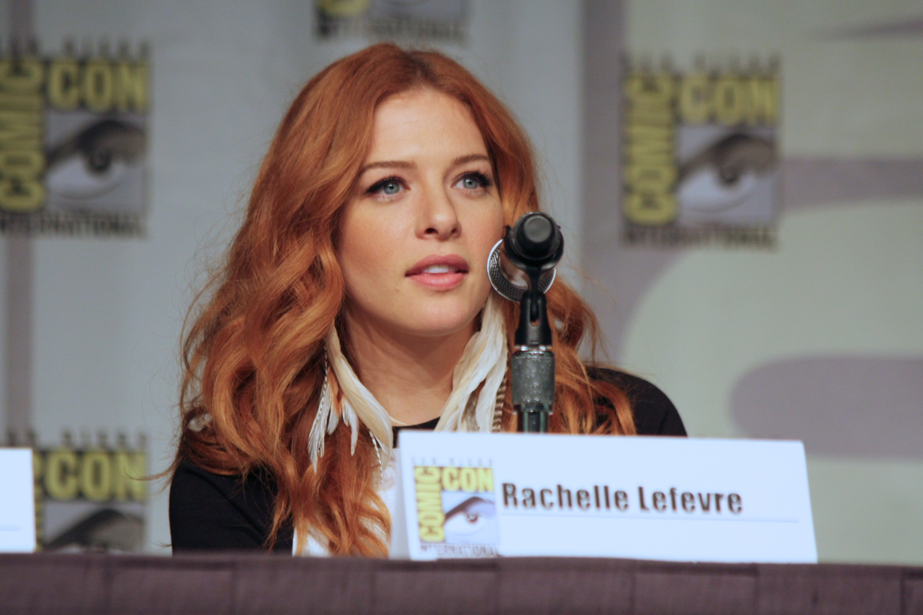 Rachelle Lefevre (Julia) Under the Dome - 2013 Comic-Con